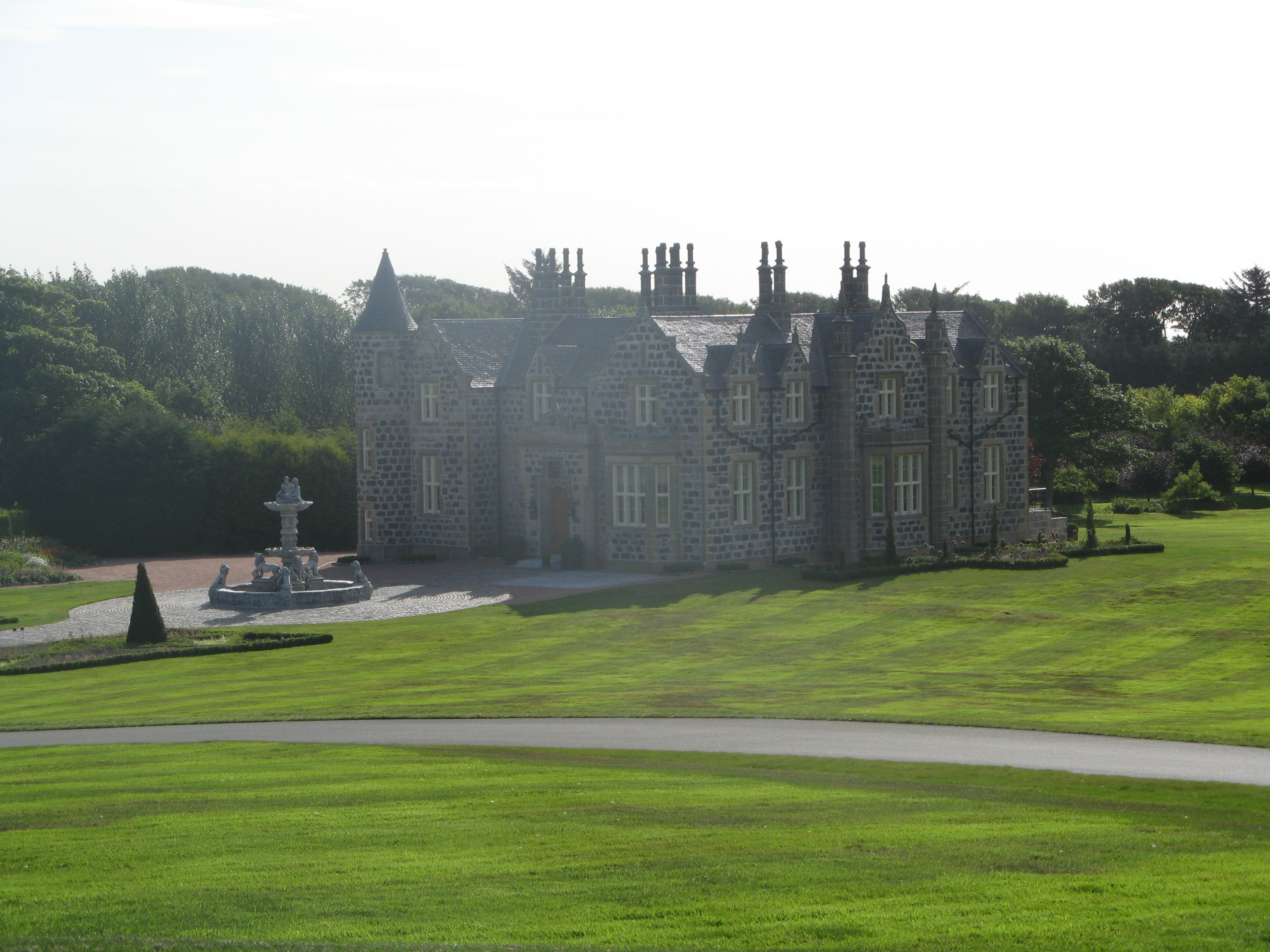 Menie House, Balmedie, Aberdeenshire, Donald Trump Golf links